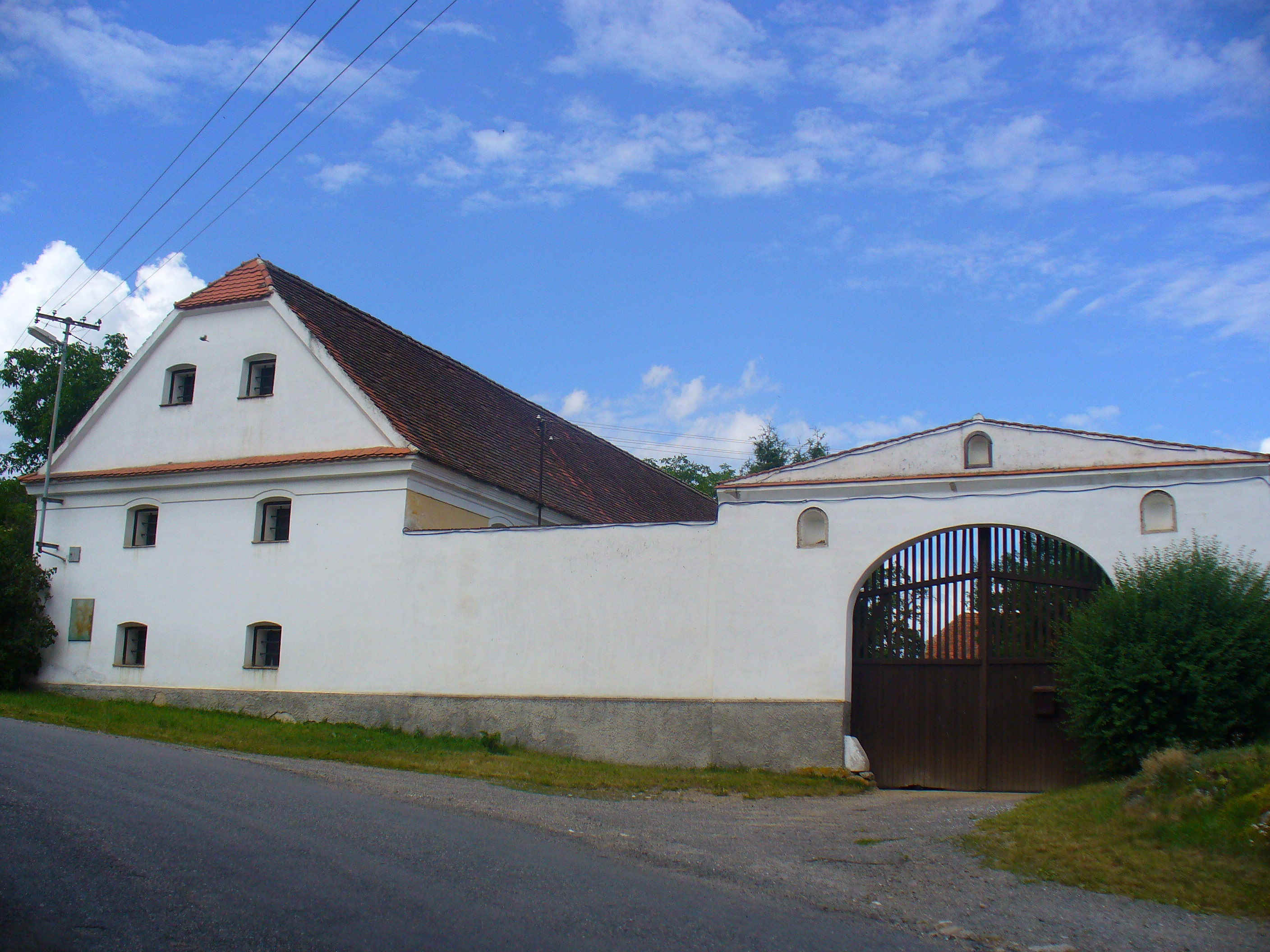 house in Vladyčín